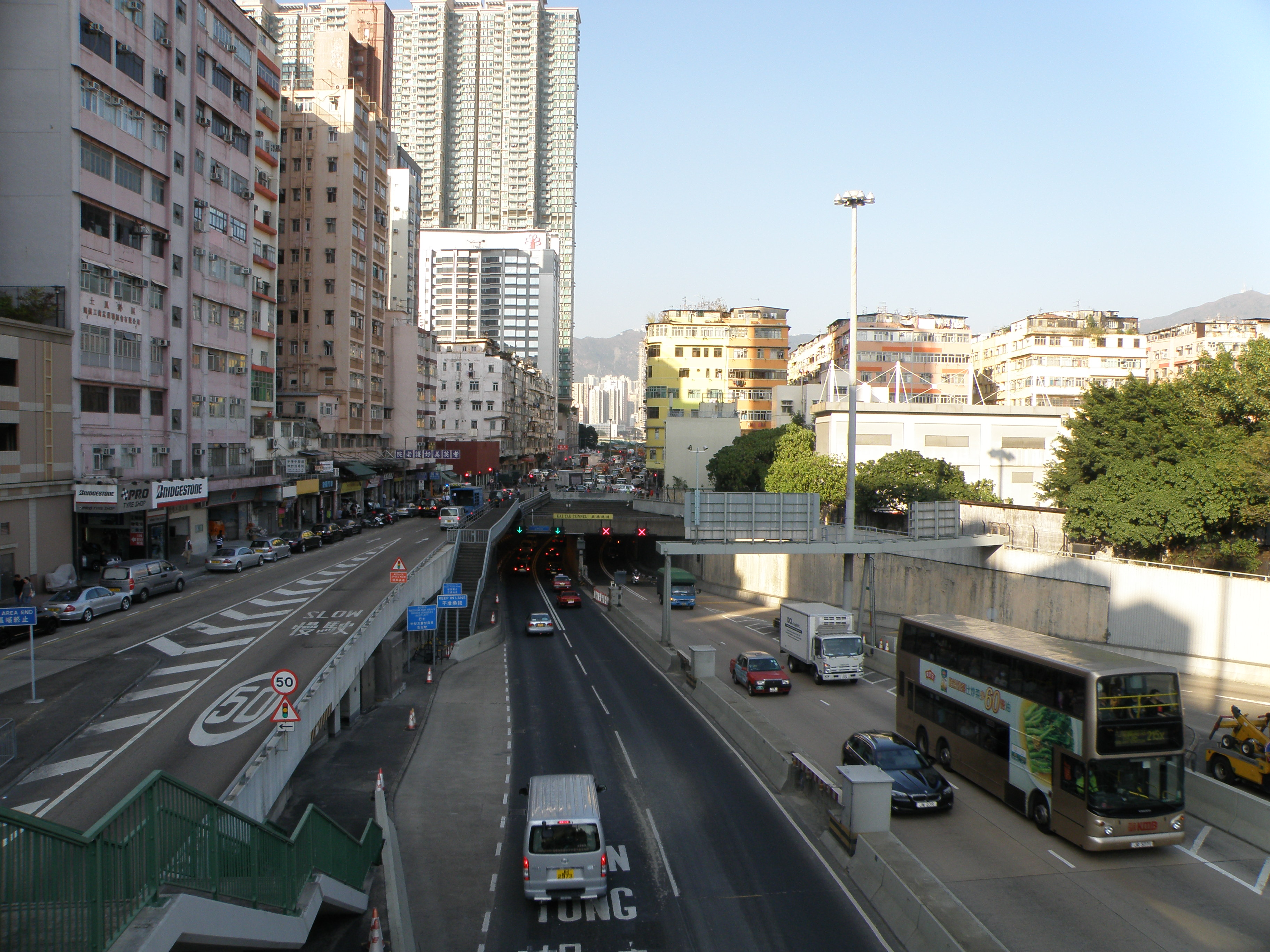 Kai Tak Tunnel in Kai Tak, Hong Kong.